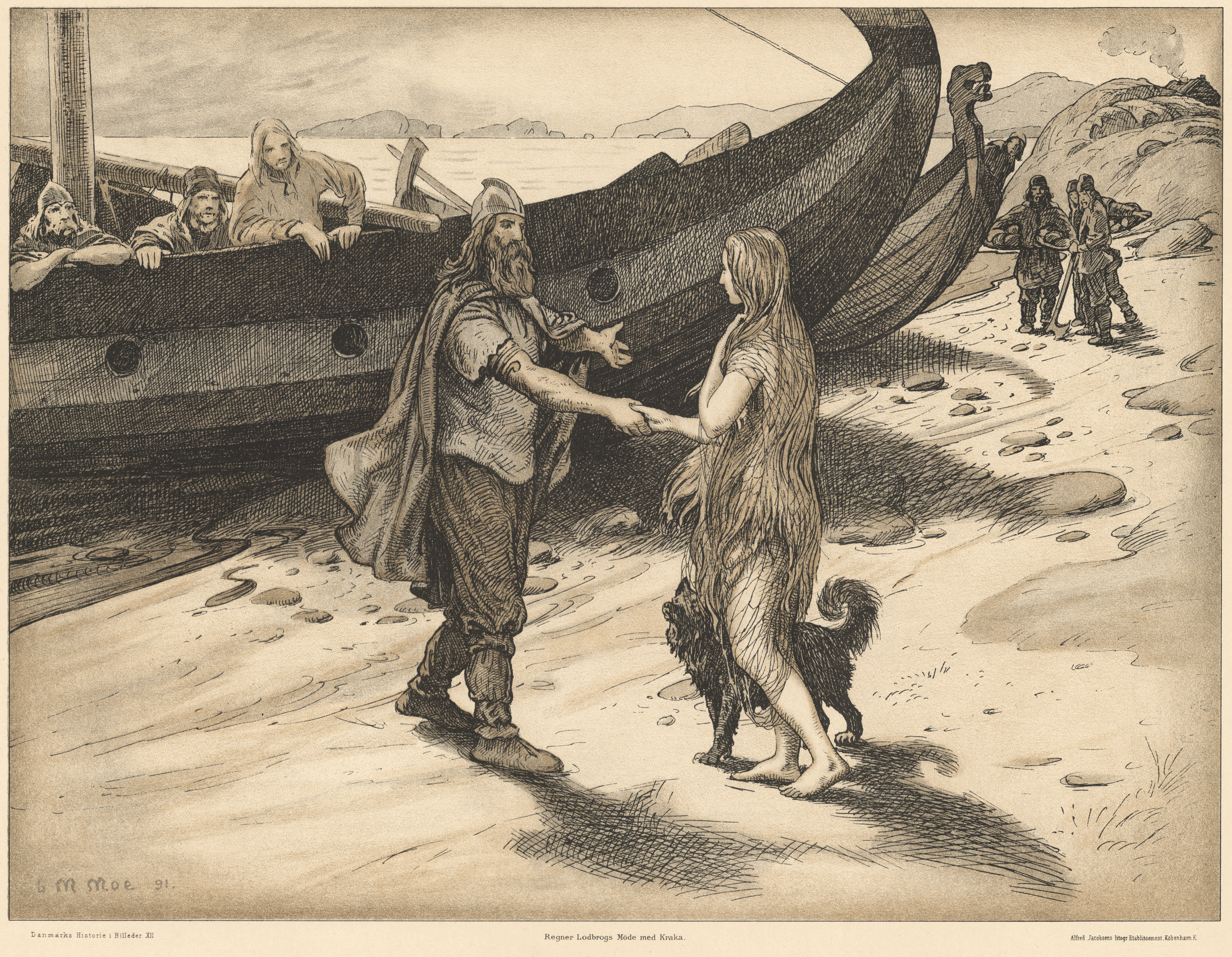 Ragnar Lodbrok meets Kraka. Colour lithograh on paper, glued on cardboard. Signed lower left: L. M. Moe 91. Text: Danmarks Historie i Billeder XII. Regner Lodbrogs møde med Kraka. Alfred Jacobsens litogr. Etablissement, København K. The collection consisted of 50 illustrations, museum no. 17.001-17.049, with No. VI and L (50) missing. Published in 1898, documented in V.E. Clausen: Folkelig grafik i Skandinavien, 1973, page 144. This version has been cropped by uploader.